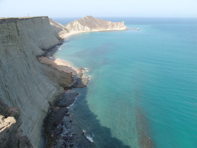 A view of sea from the Astola Island of Pakistan.